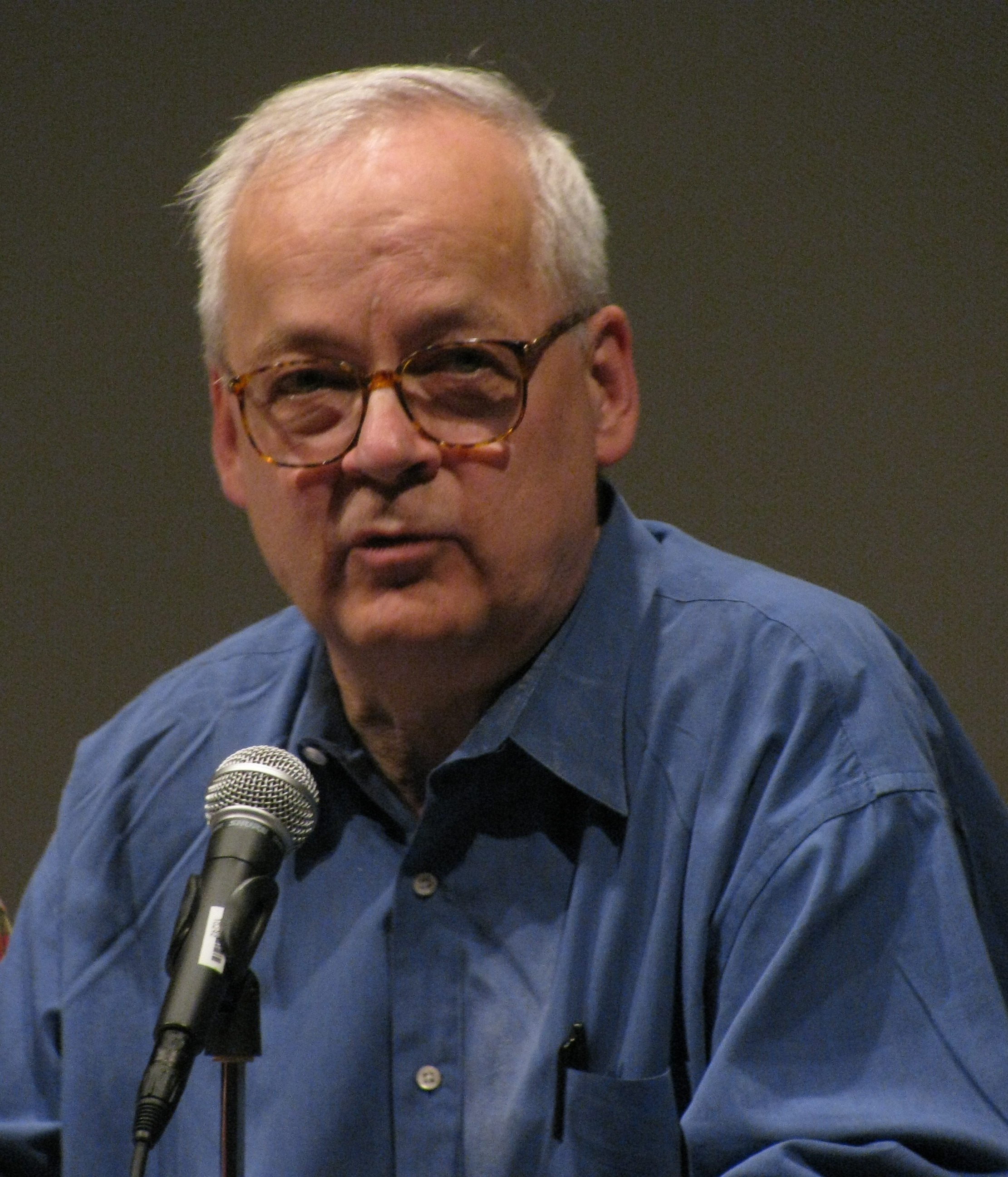 Tony Conrad at the Celebration of the 35th Anniversary of the Founding of Media Study (University at Buffalo)